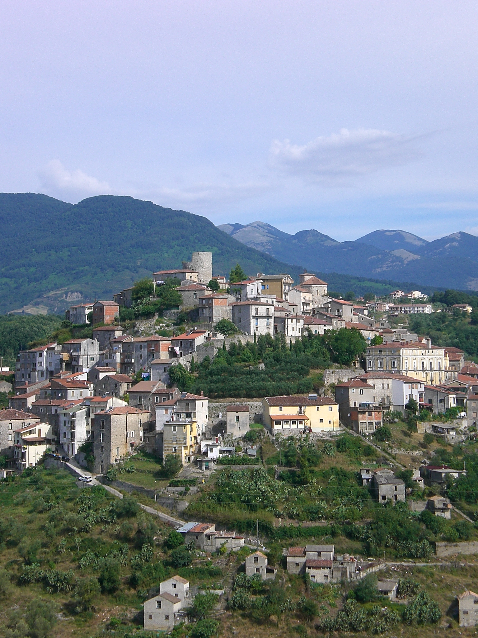 View of Caselle in Pittari